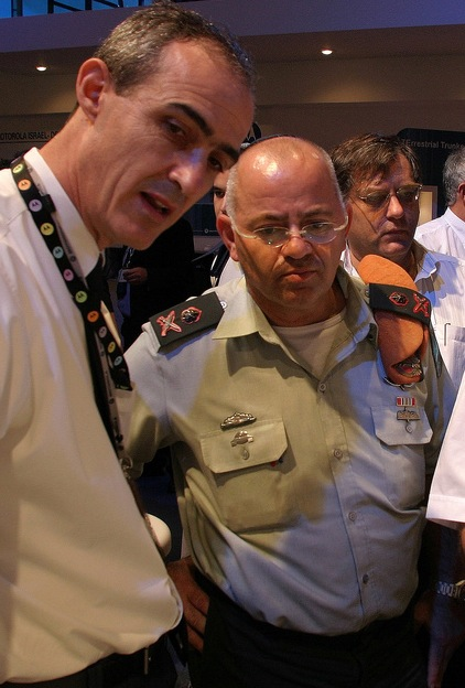 General-major Yair Naveh of IDF (as GOC Homefront Command)